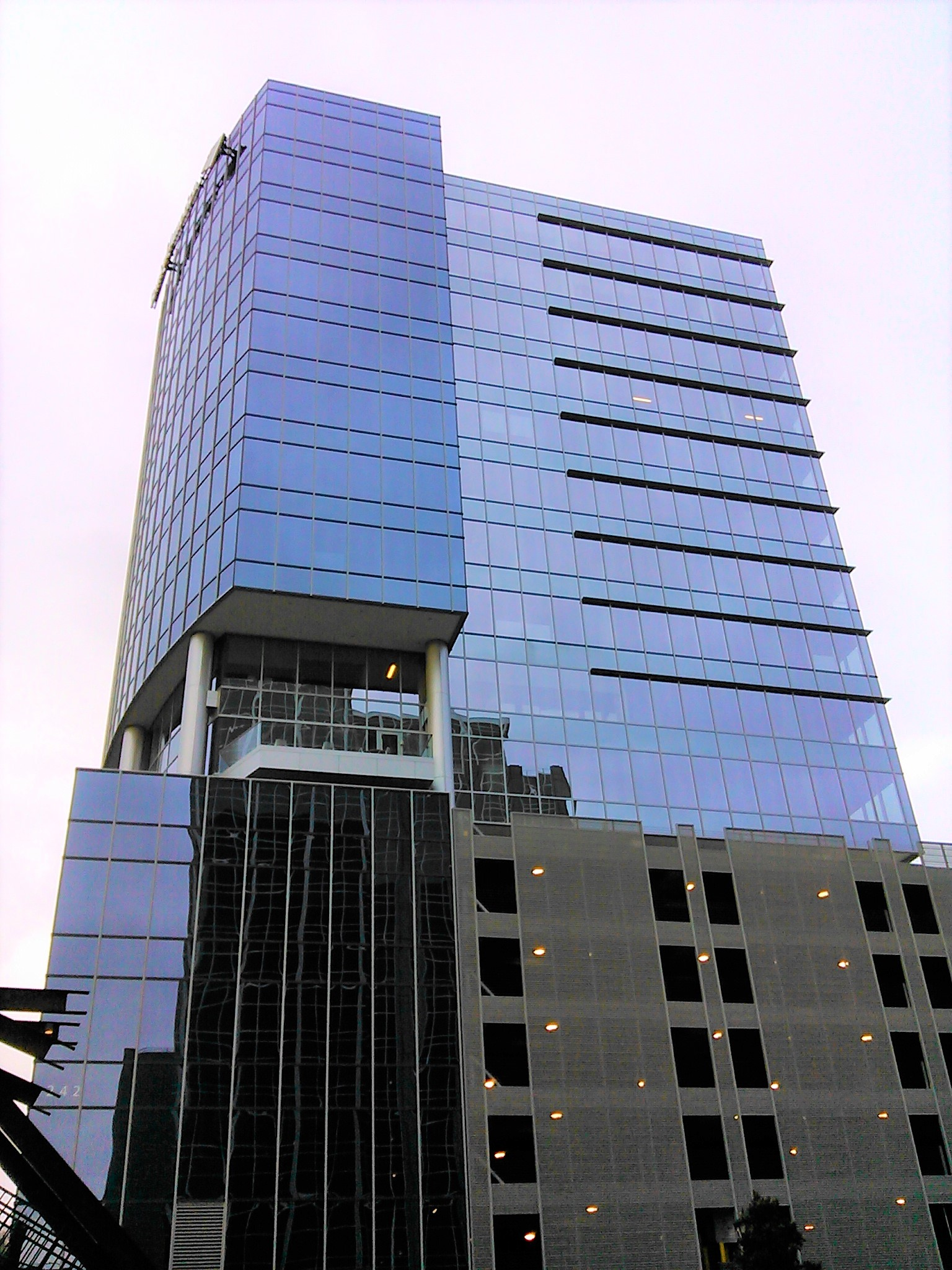 North Hills Tower 2 or the Bank of America Tower in North Hills, Midtown Raleigh, North Carolina.